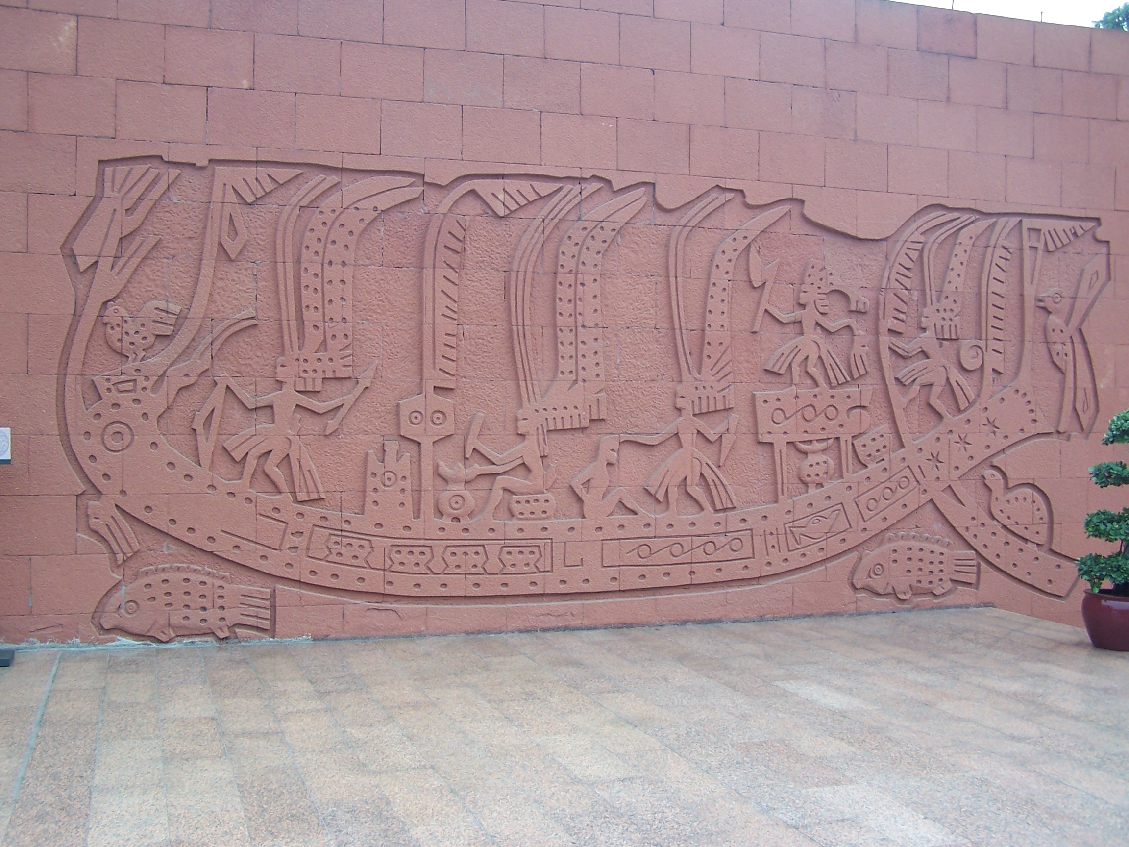 stone wall on the east side of Museum of the Western Han Dynasty Mausoleum of the Nanyue King, Guangzhou. 一面西汉南越王博物馆的石壁，伫立于通道东侧。